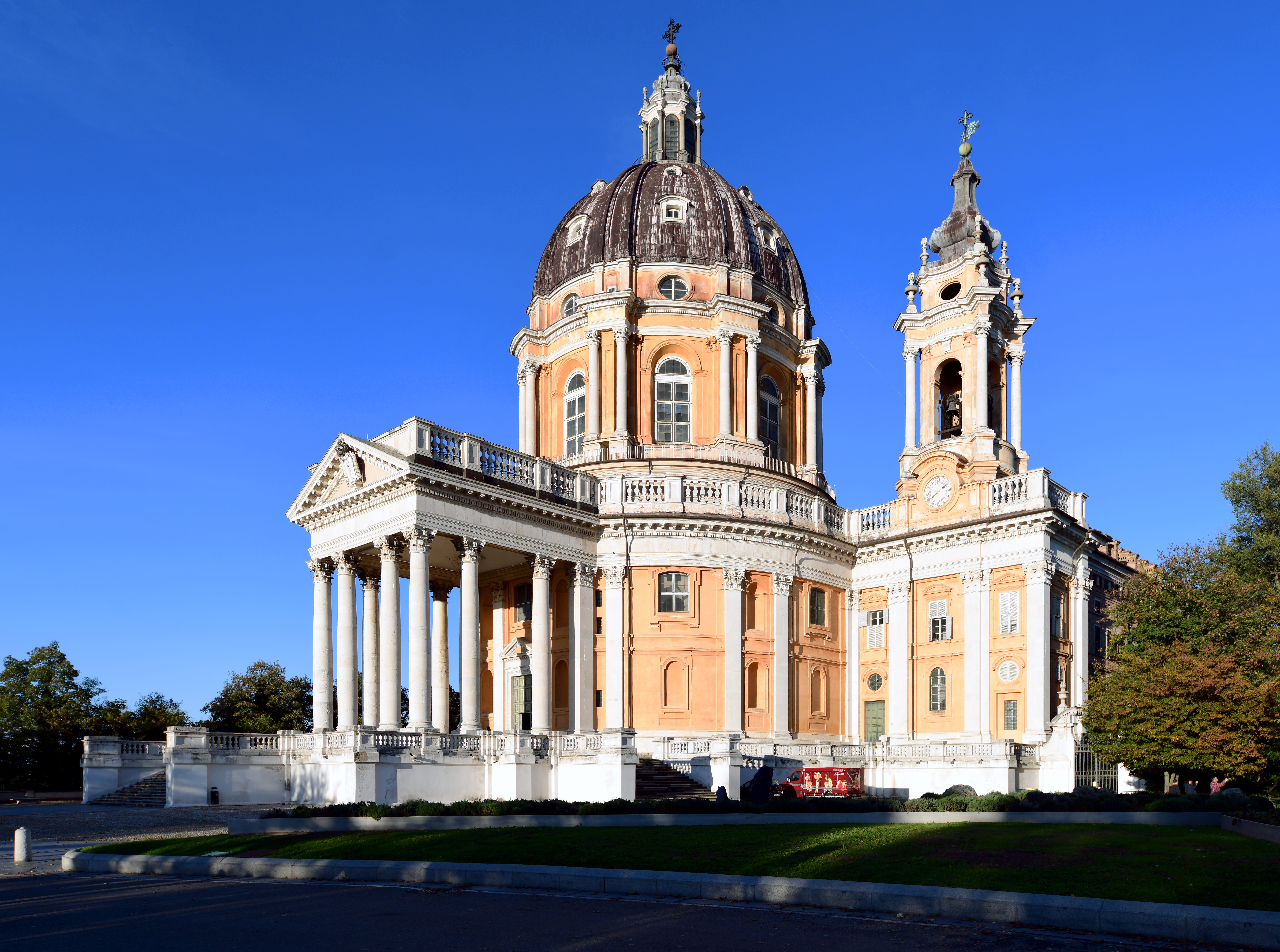 Basilica di Superga (Turin)